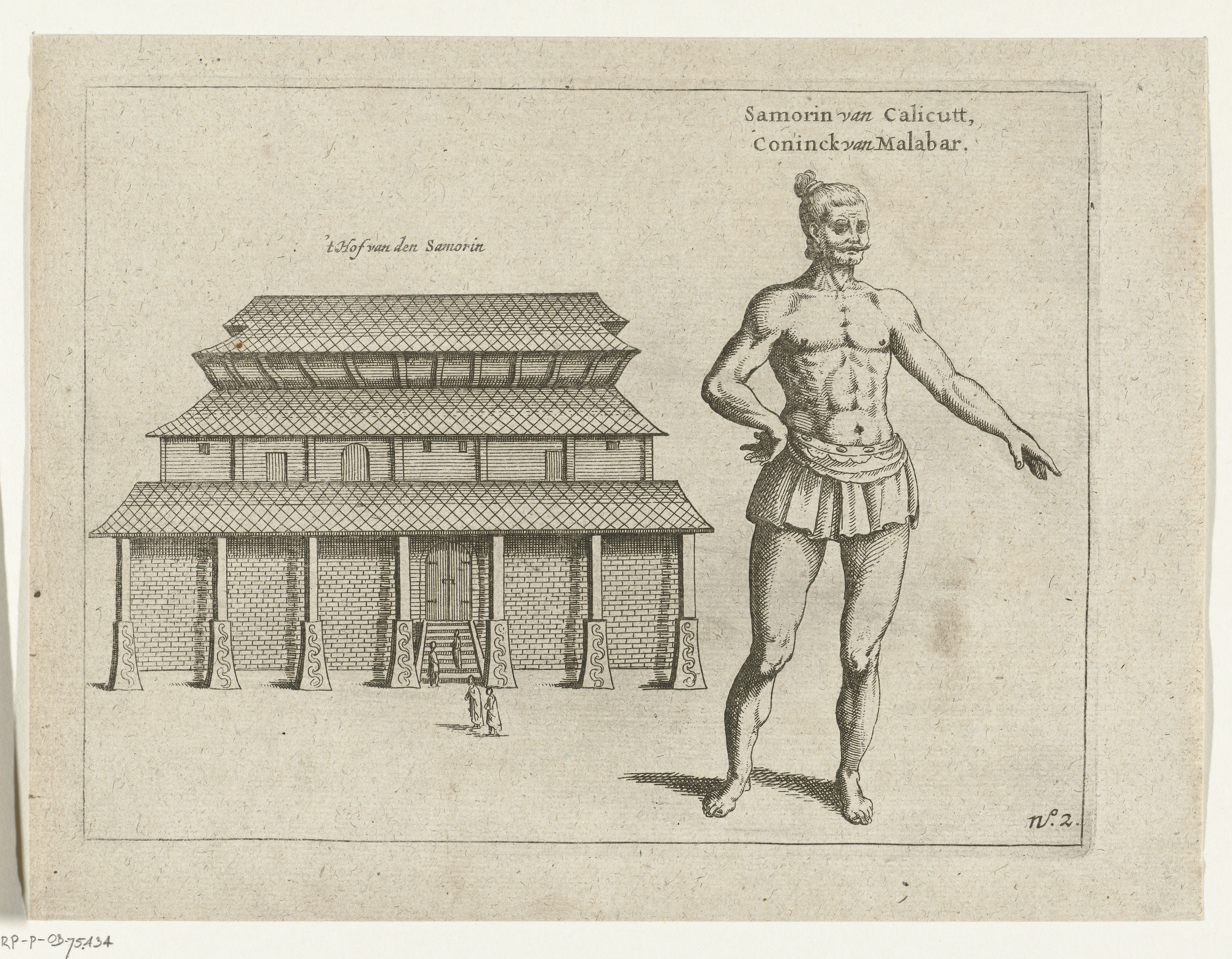 The Palace of the Zamorin of Calicut, 1604 by Nederlandsche Oost-Indische Compagnie